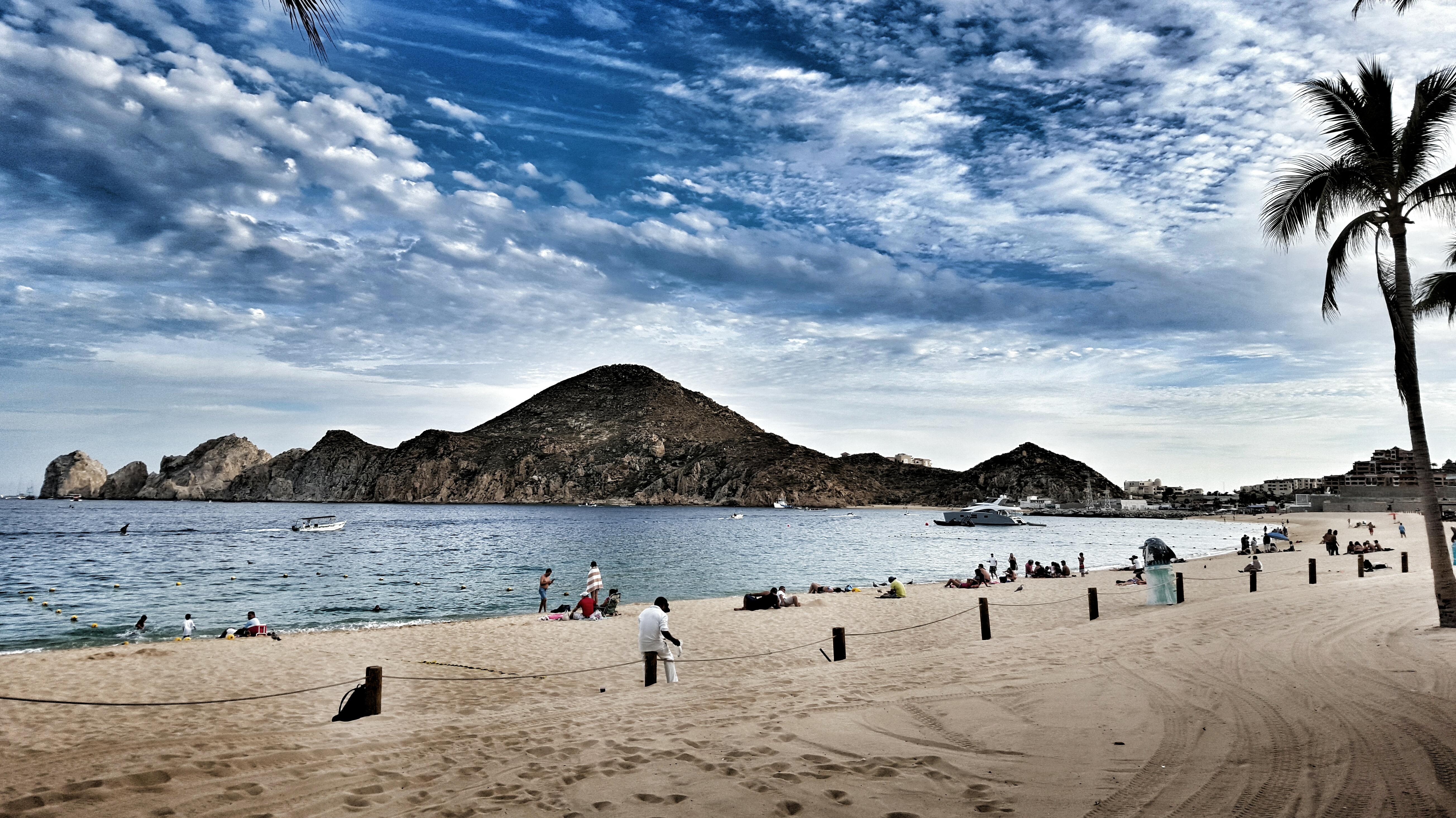 Medano Beach view of Land's End Peninsula - Cabo San Lucas, Baja California Sur, Mexico